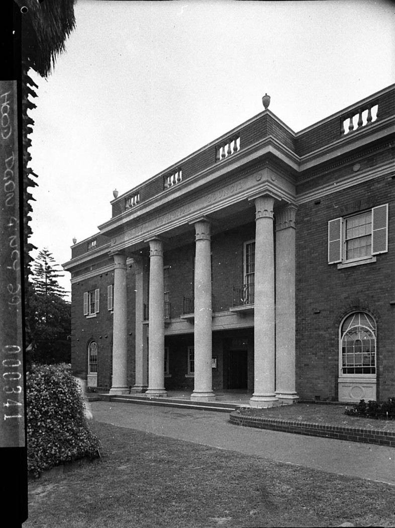 Neo-classical portico of Manly Council Chambers